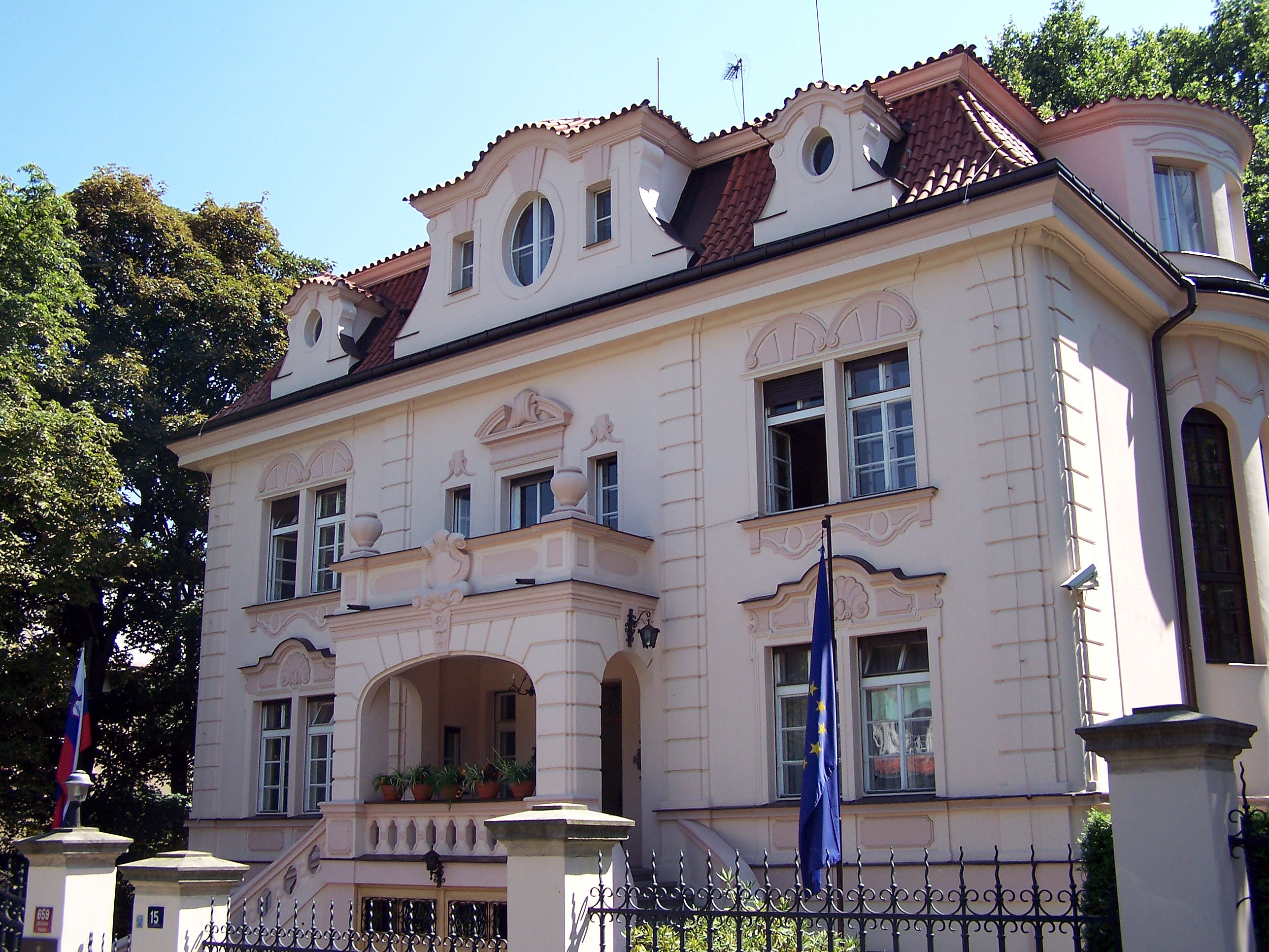 Embassy of Slovenia in Prague, Czech Republic, Pod hradbami 659/15